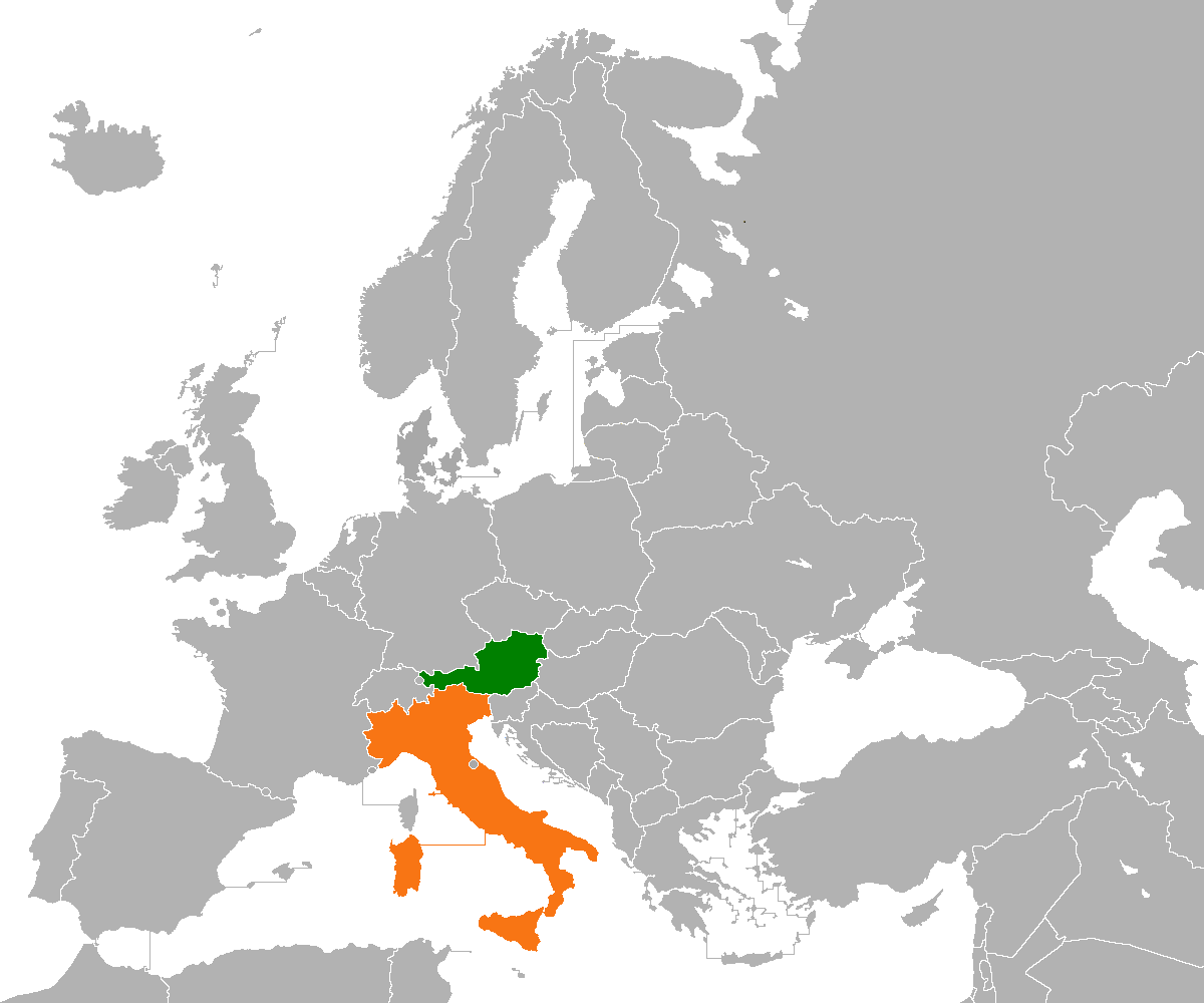 Licence free map I made.